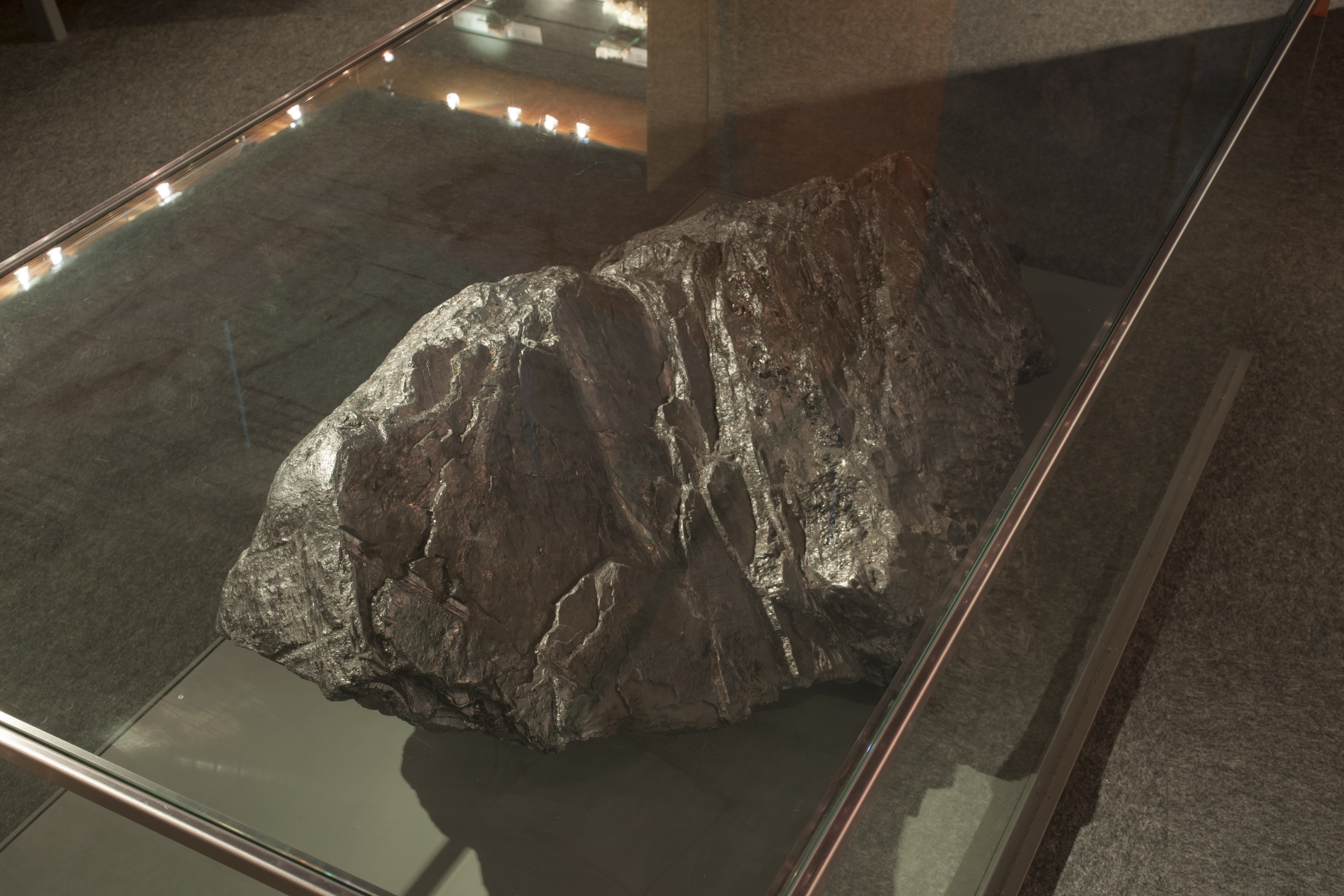 Natural history museum Naturalis, Leiden. Exhibition Nature theatre. Graphite, large stone.